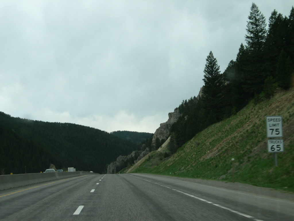 Interstate 15 in Montana.